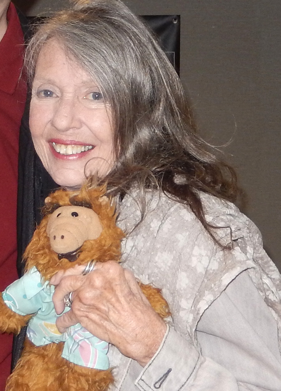 Anne Schedeen at Chiller Theater, Parsippany, New Jersey.